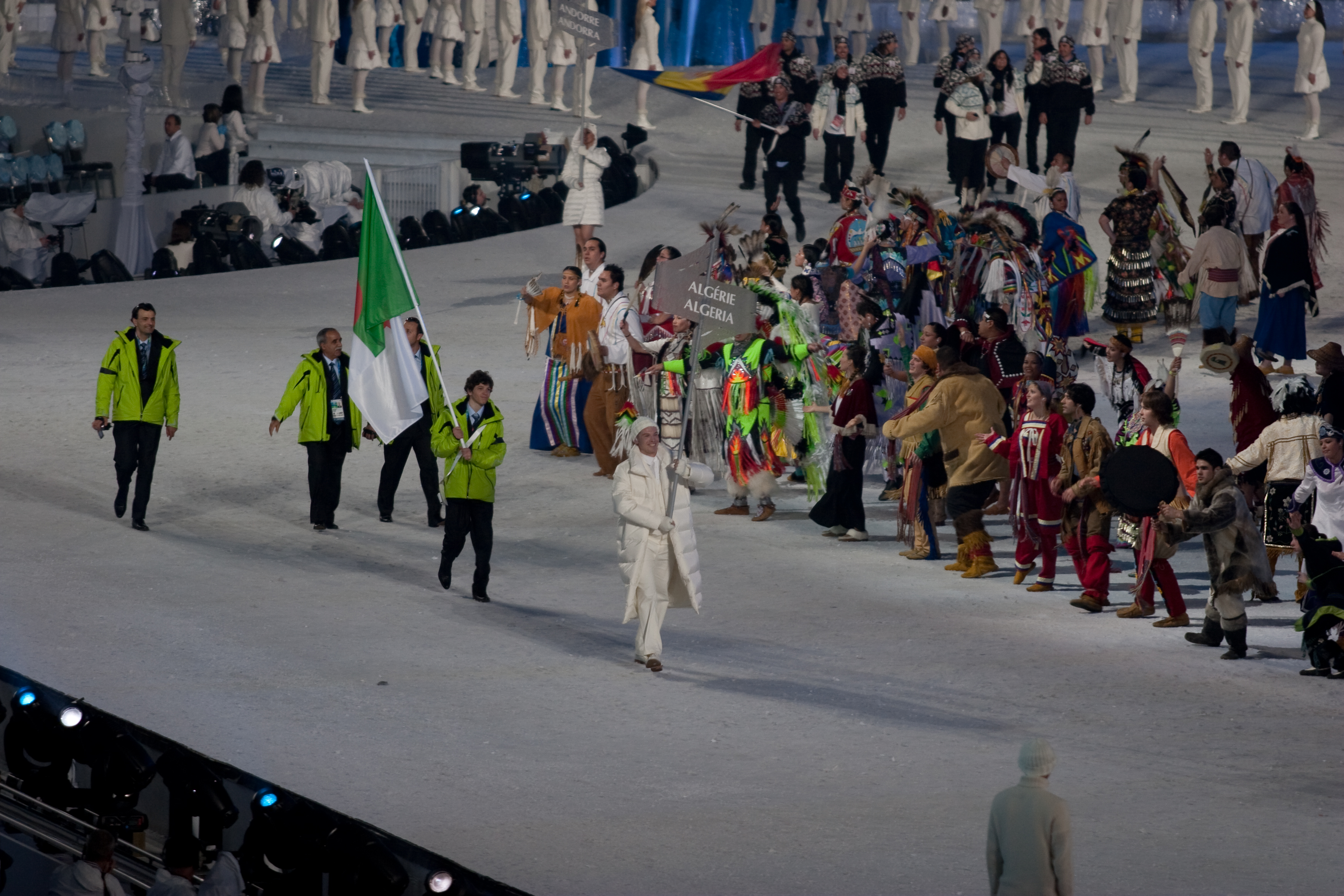 The athletes from Algeria entering the stadium at the opening ceremonies of the 2010 Winter Olympics.